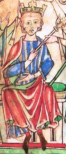 Henry the Young King (according to source)